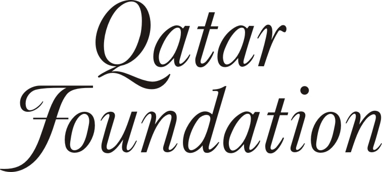 Qatar foundation logo,Qatar Foundation for Education, Science and Community Development (Arabic: مؤسسة قطر ) is a semi-private chartered, non-profit organization in the state of Qatar, founded in 1995 by decree of Sheikh Hamad bin Khalifa Al Thani, Emir of Qatar. In addition to private funding it is government-supported and in some parts government-funded by the government of Qatar.